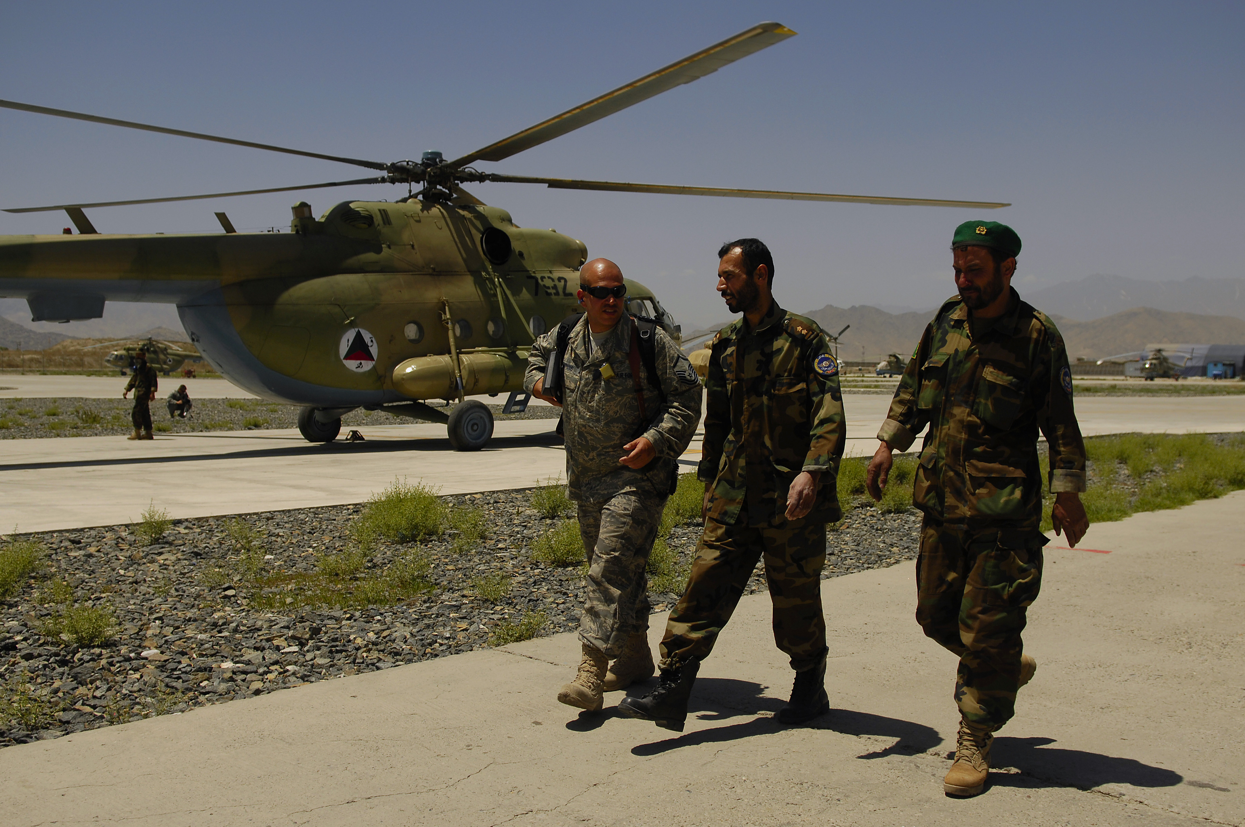 U.S. Air Force Master Sgt. Marvin Simpkins reviews preflight procedures with an Afghan National Air Corps airman prior to preflighting an Mi-17 Hip multipurpose helicopter in Kabul, Afghanistan, May 14, 2008. Simpkins is deployed from 19th Maintenance Squadron, Robins Air Force Base Ga., and is assigned to the Combined Air Power Transition Force. (U.S. Air Force photo by Master Sgt. Andy Dunaway/Released) Location: Kabul International Airport